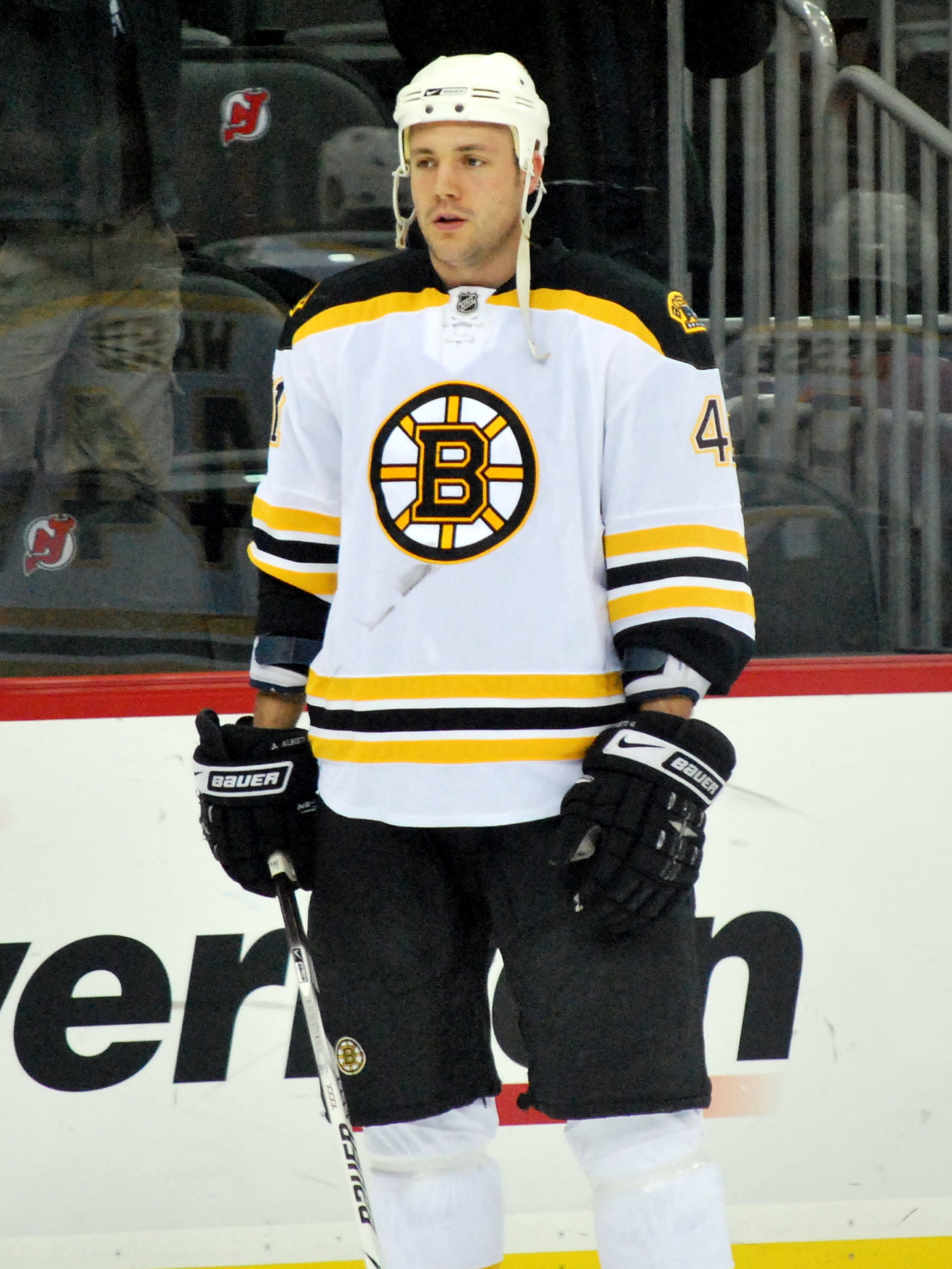 Boston Bruins defenceman Andrew Alberts during a game against the New Jersey Devils on April 2, 2008.